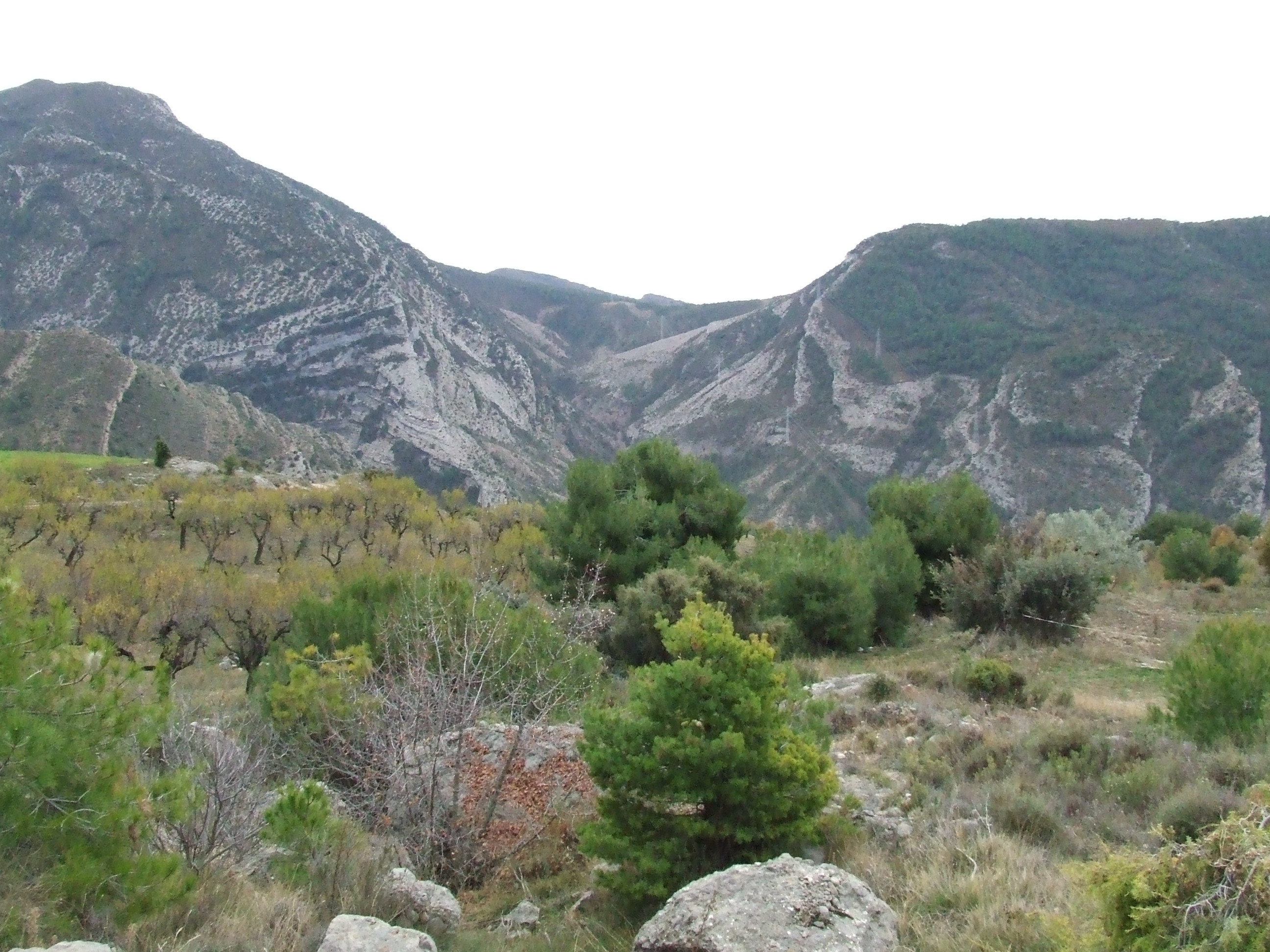 Maquis shrubland — in Conca de Dalt of Catalonia, in northeastern Spain.